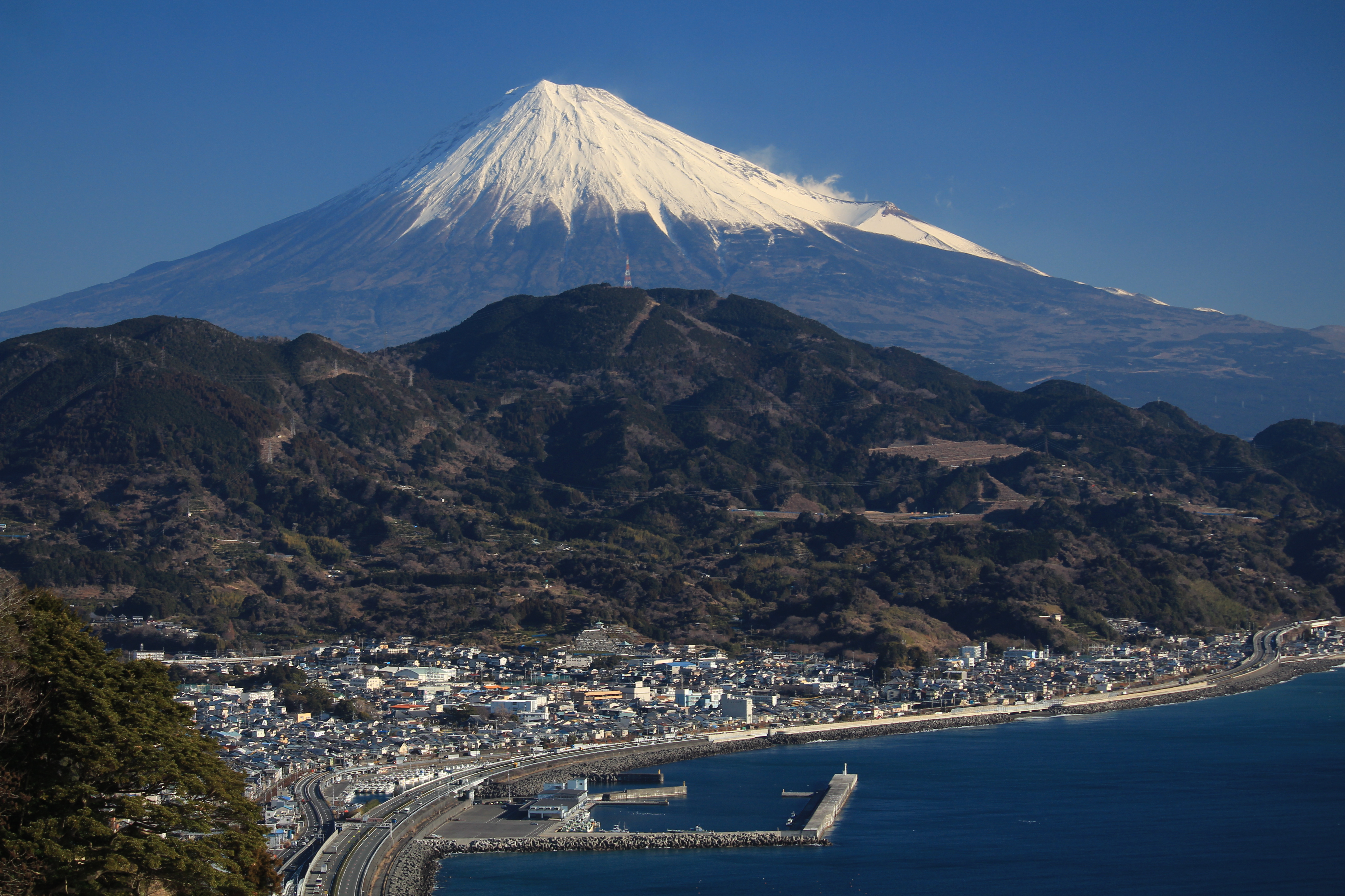 Mount Fuji and Port of Yui seen from Sata in Yui, Shimizu-ku, Shizuoka City, Shizuoka Prefecture, Japan. Canon EOS Kiss X7i